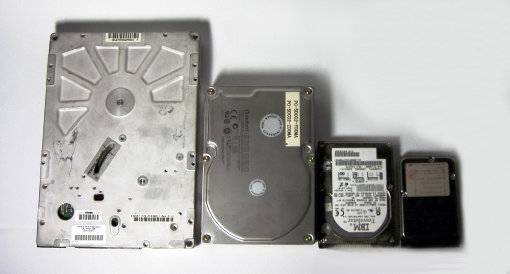 hard disk drive [5.25, 3.5, 2.5, PCMCIA-HDD] Japan